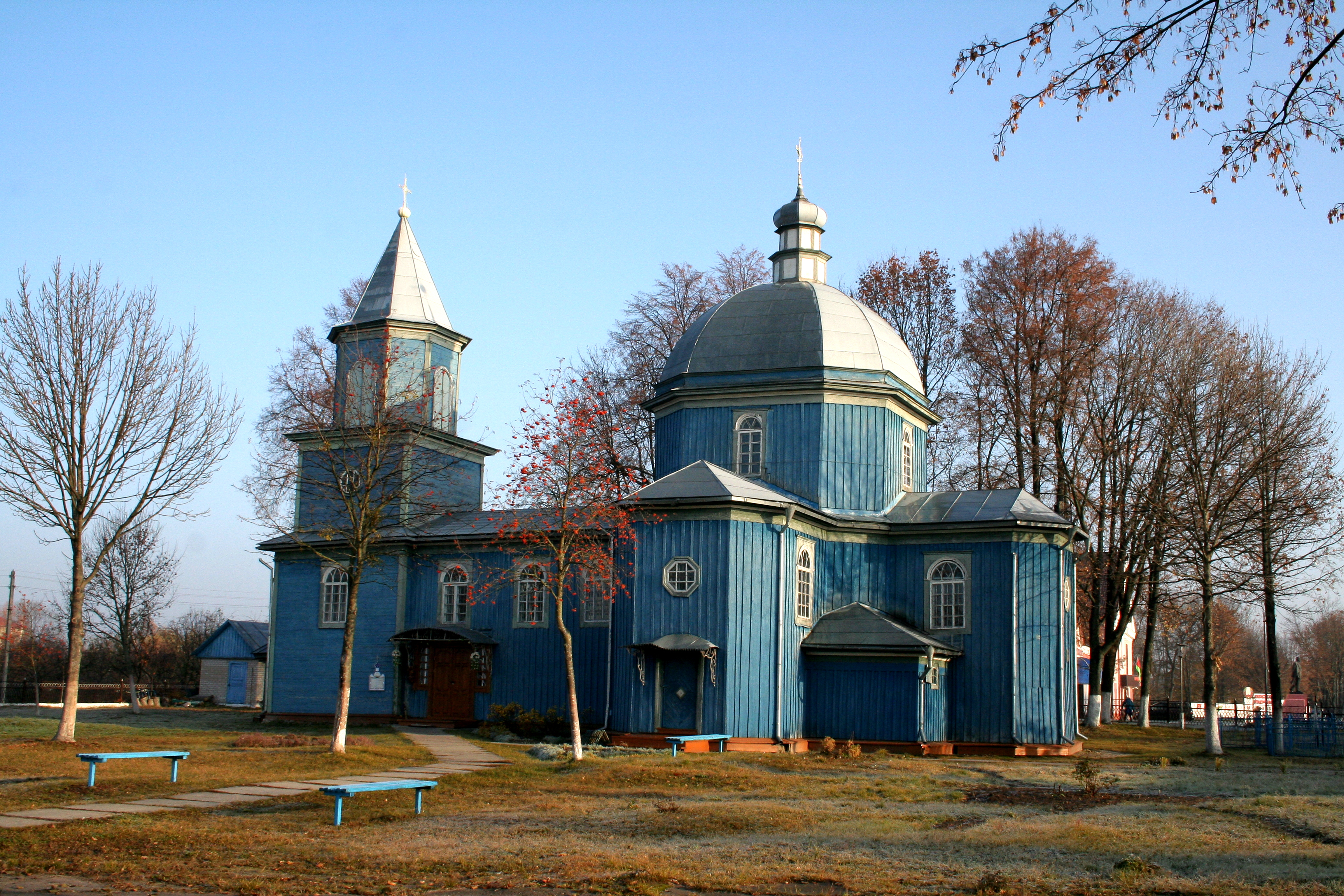 Church of the Holy Trinity in Jelsk, Belarus This is a photo of Belarusian heritage monument. Reference number: 312Г0002 ( WLM)